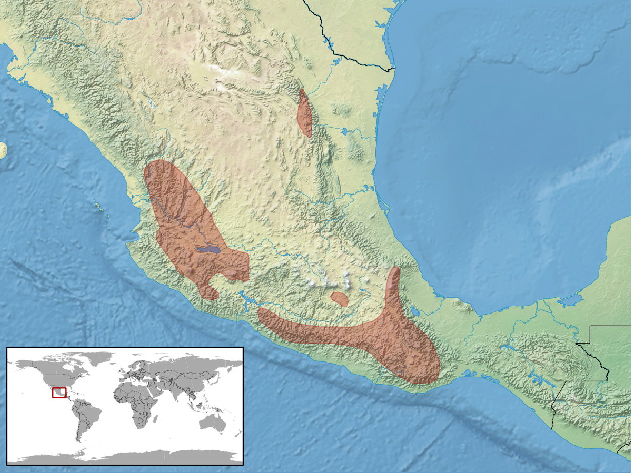 geographic distribution of Plestiodon brevirostris